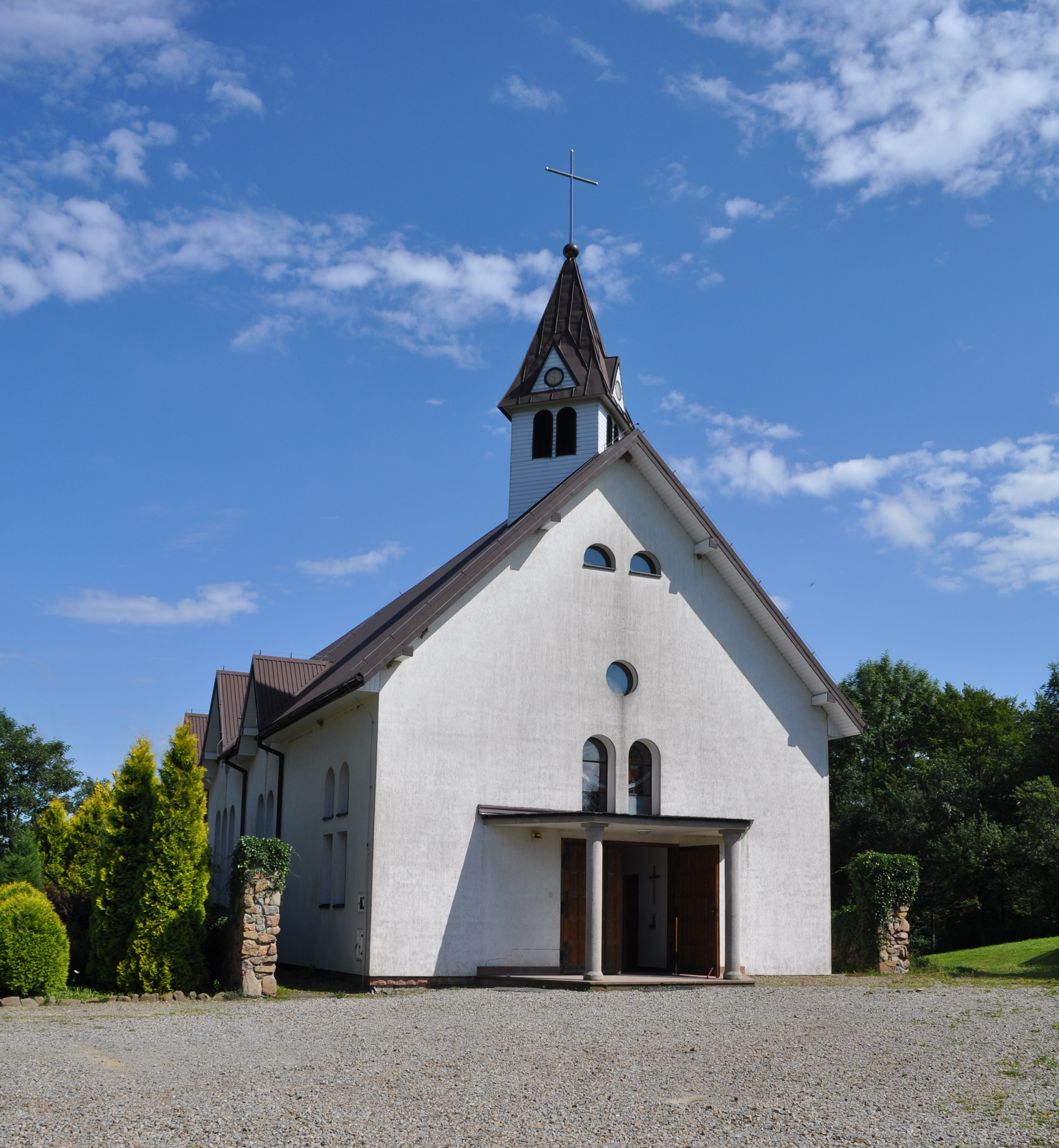 Church in Zboiska